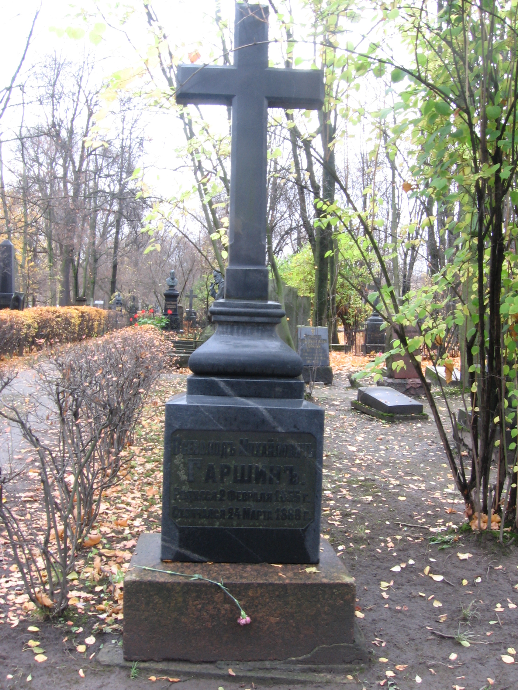 Grave of Vsevolod Garshin